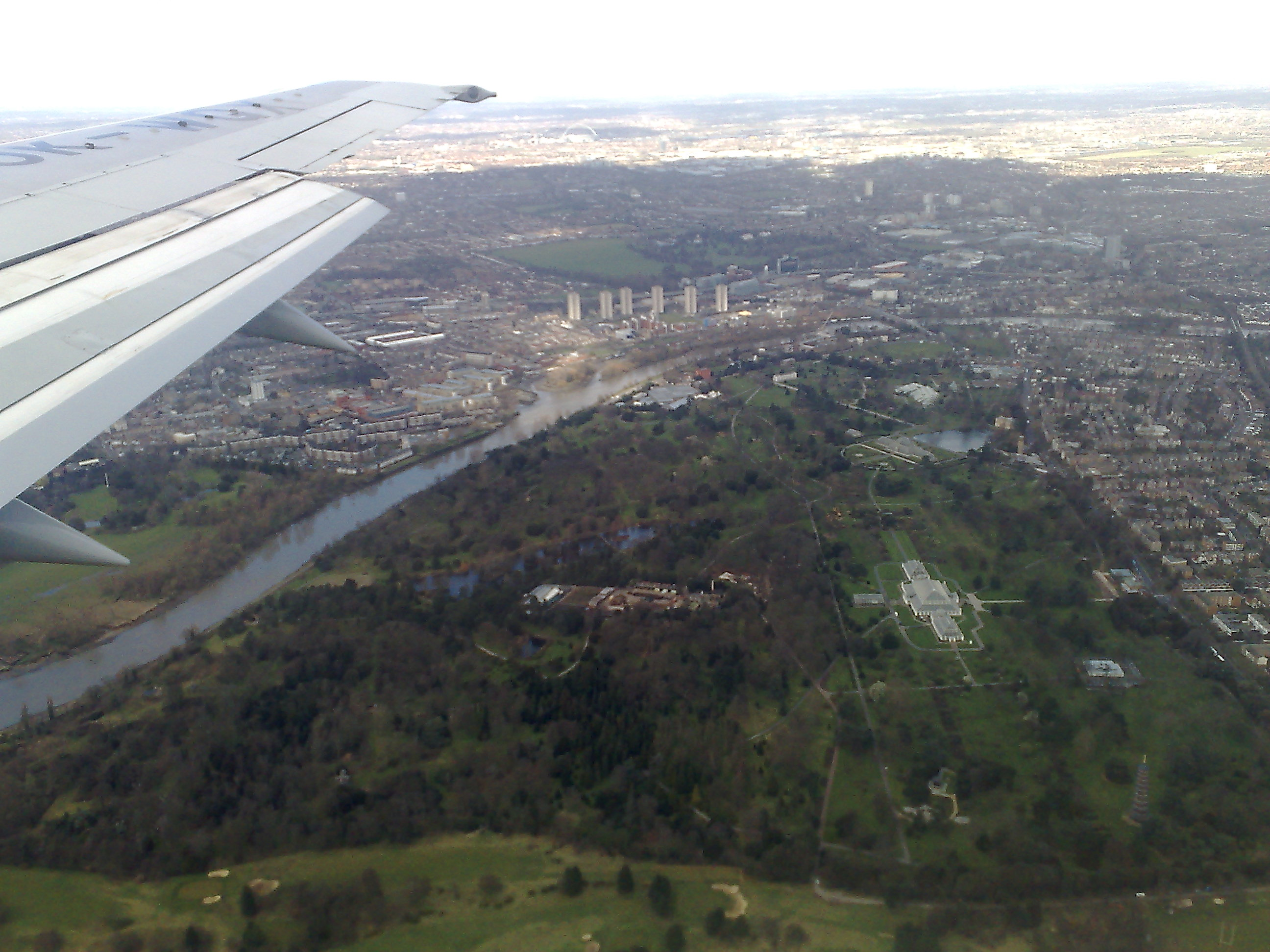 Kew gardens in foreground and past the line of tower blocks is Gunnersbury Park